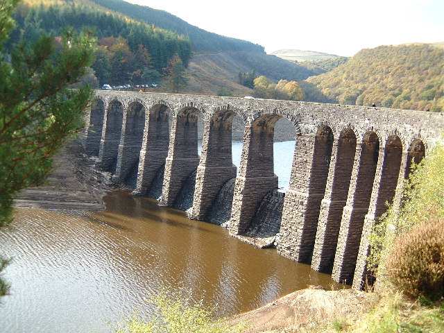 Carreg ddu separating dam at Caban Coch, Elan Valley Reservoirs, Powys, Wales at a time of very low water. Maintains minimum level of upstream part.